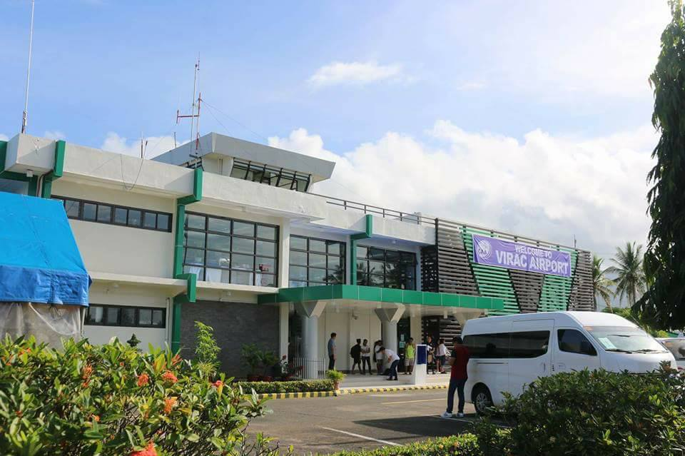 Virac Airport terminal building exterior.